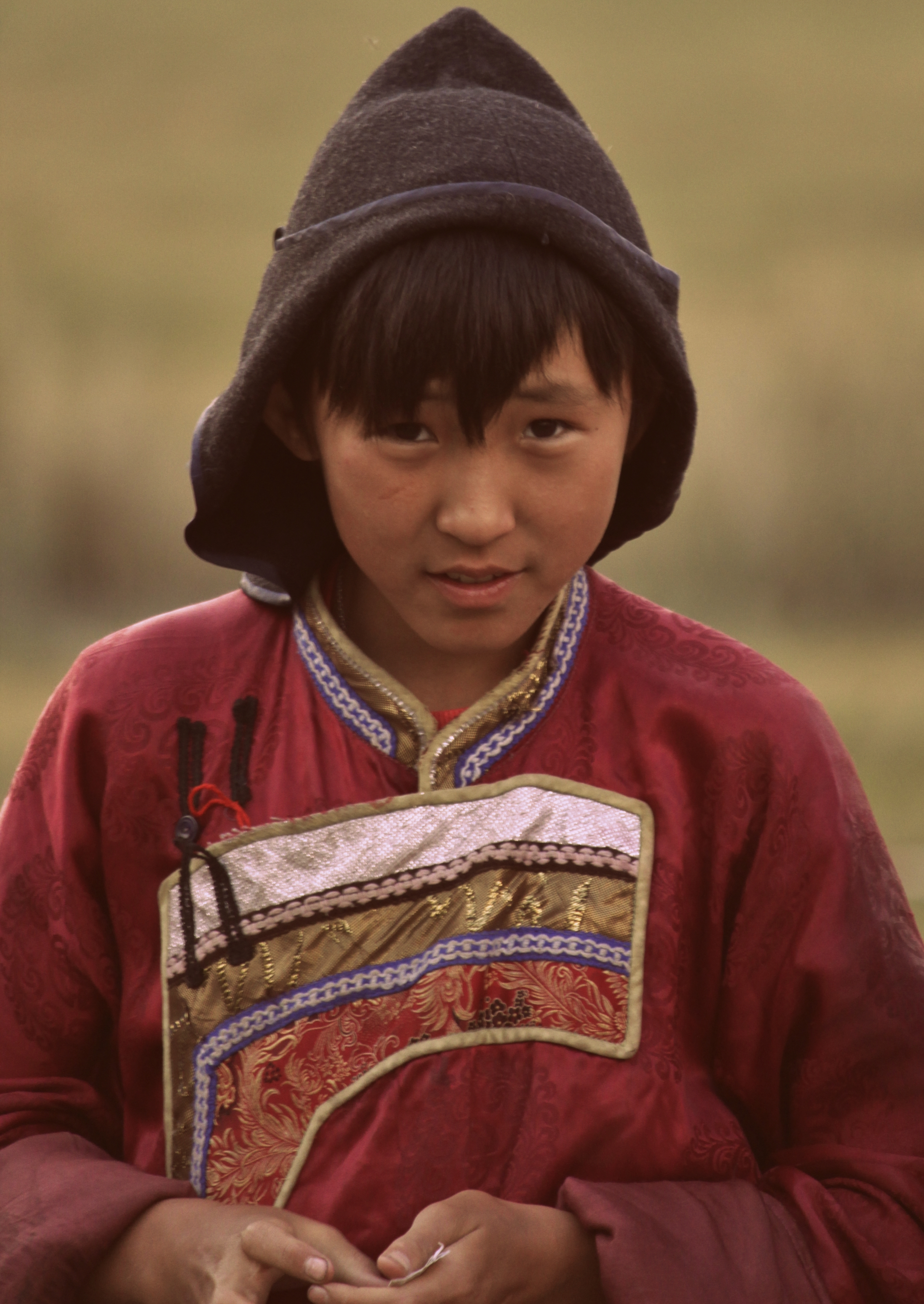 Buryat boy Bato-Tsyren during shamanic rite "Shandruu". Not far from Ulan-Ude, Buryatia, Siberia.